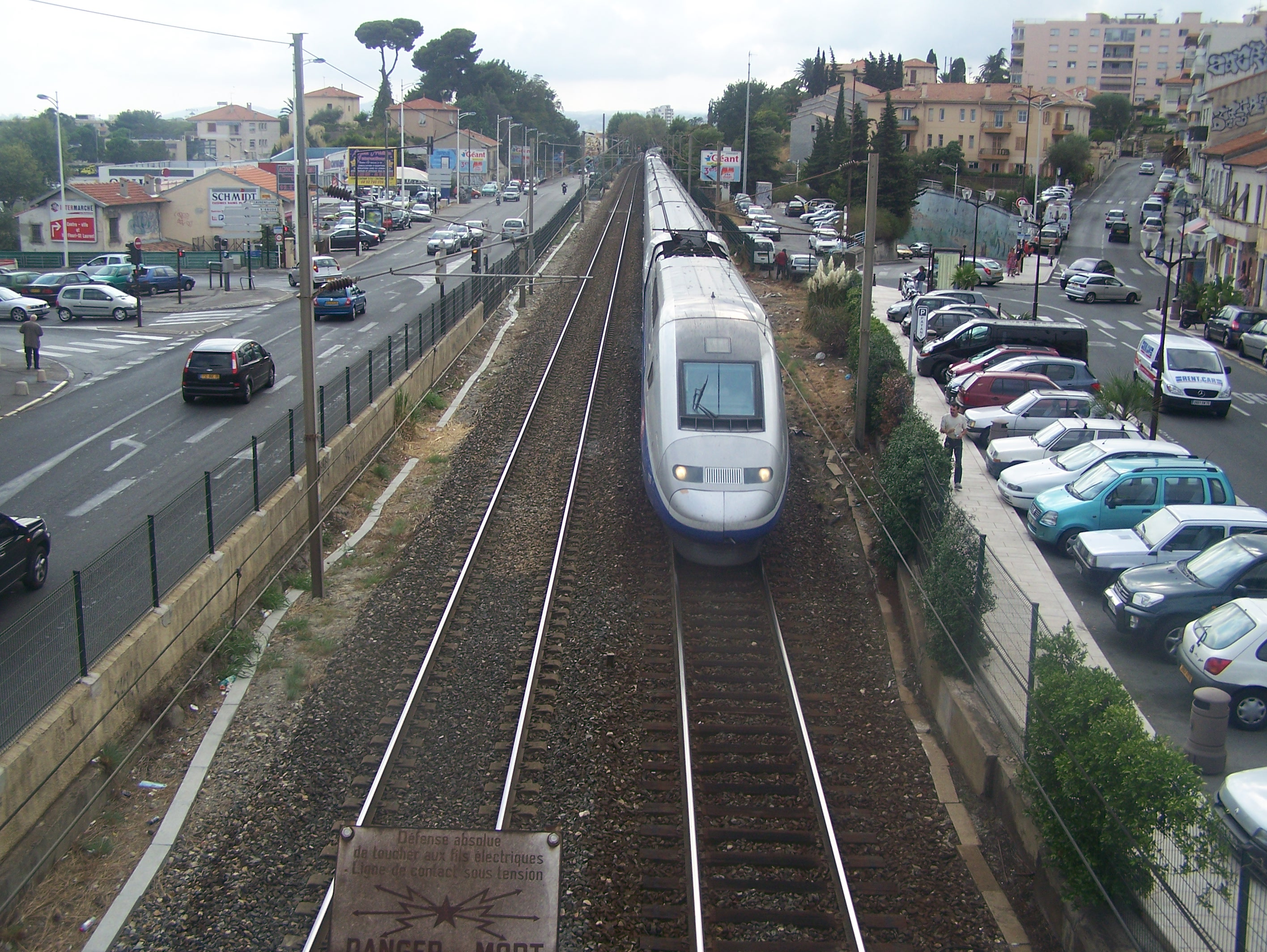 A TGV Duplex crossing the city of Saint-Laurent-du-Var, in the South-East of France.